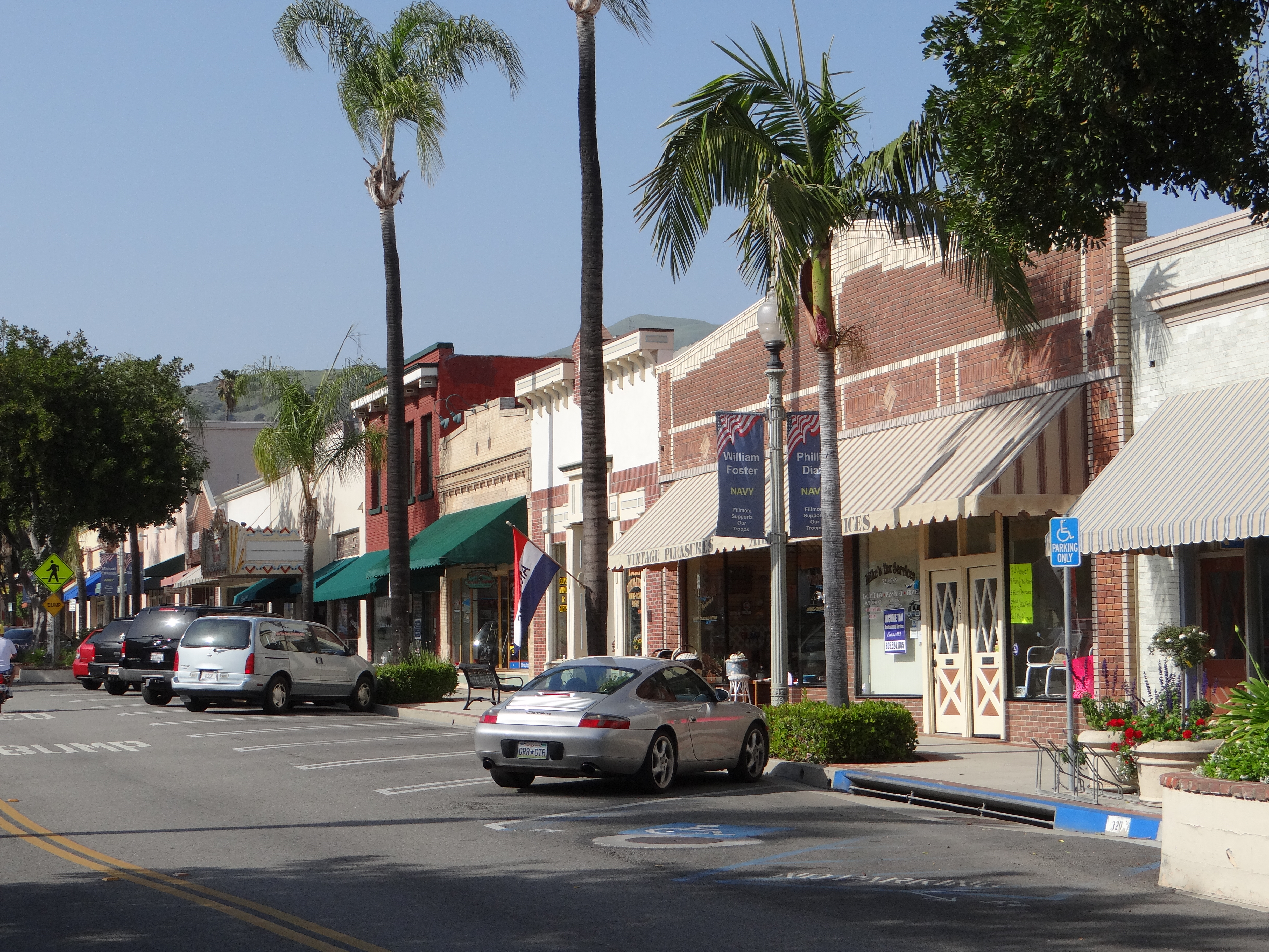 Photograph of downtown Fillmore, California